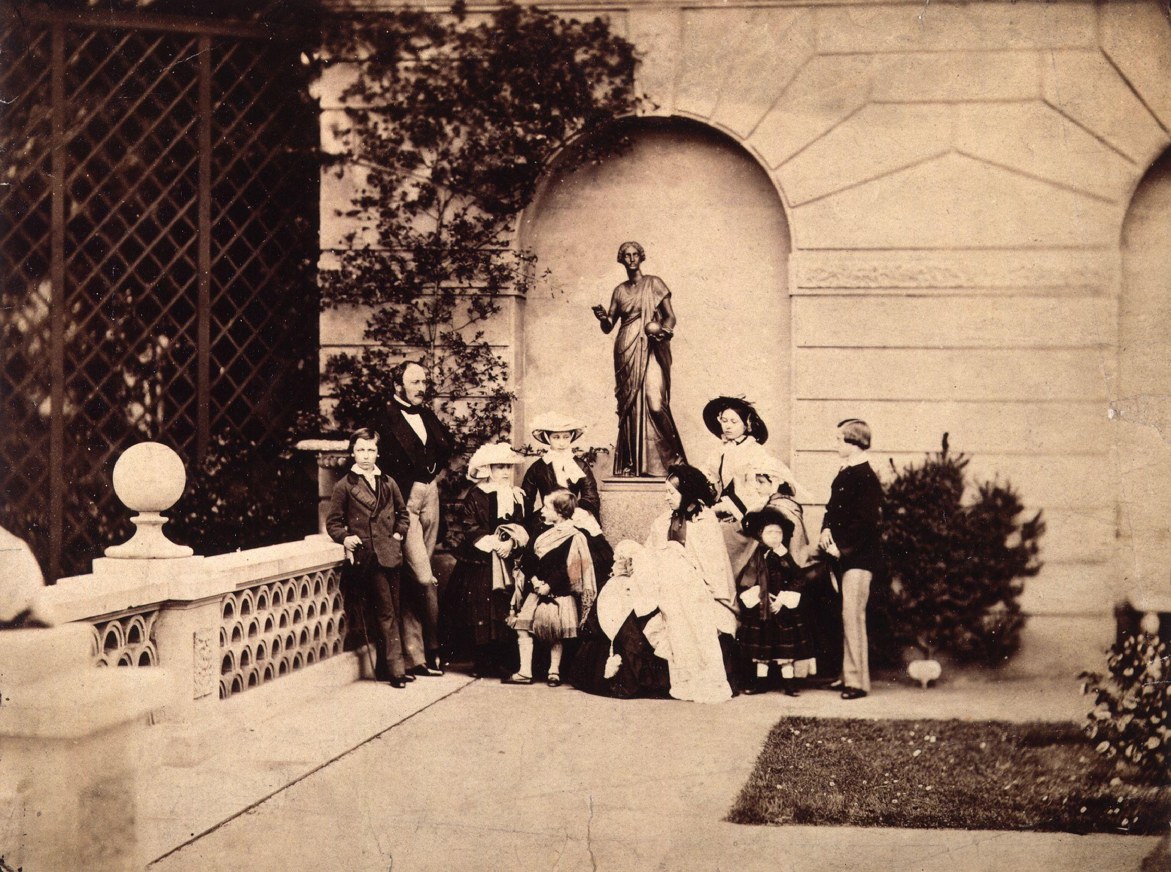 All images in this batch have been evaluated manually for evidence that the artist probably died before 1939, or that the work is anonymous or pseudonymous and was probably published before 1923. Published 1857, Caldesi [1] died 1891.